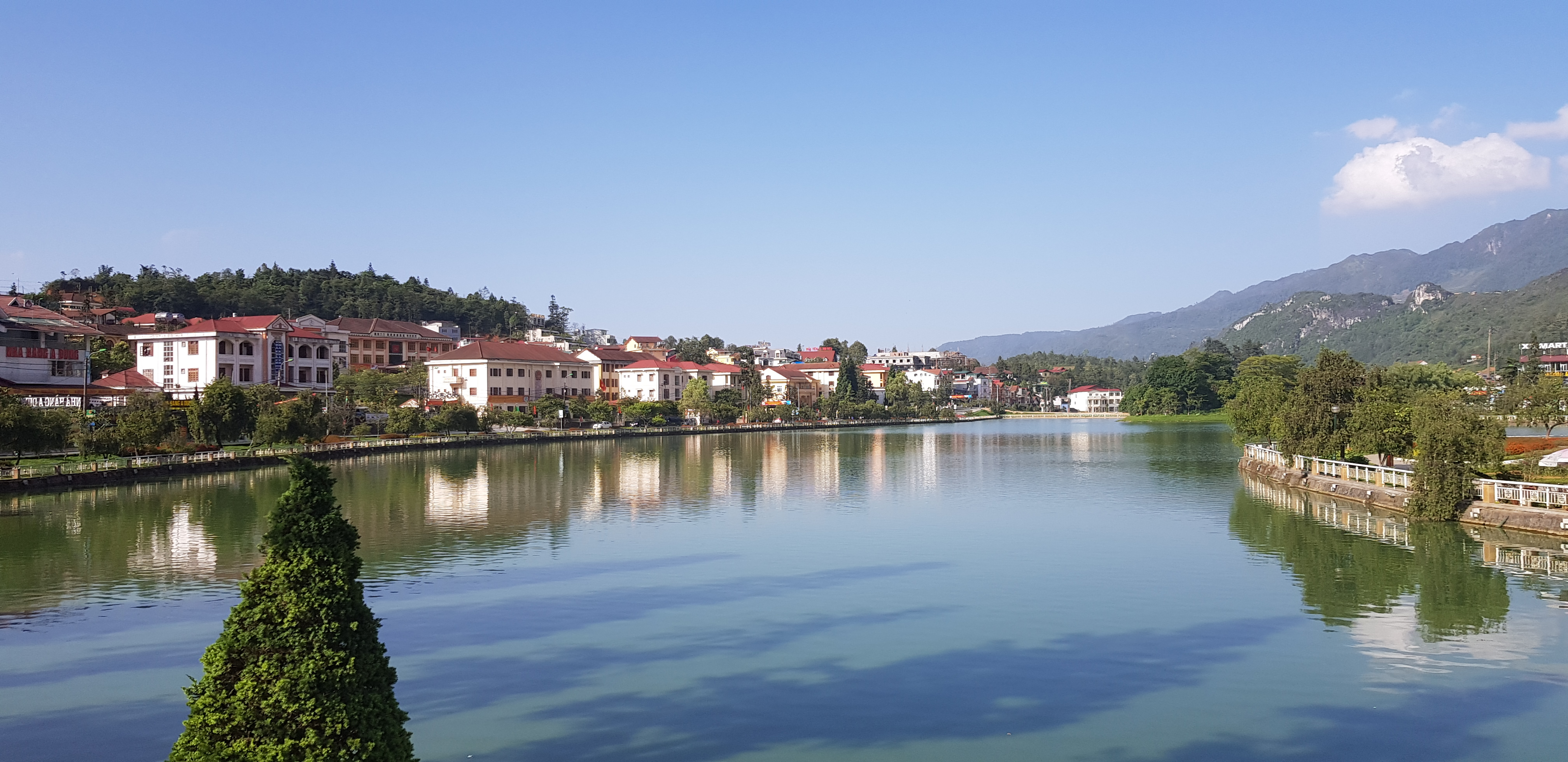 Sa Pa Lake, Vietnam